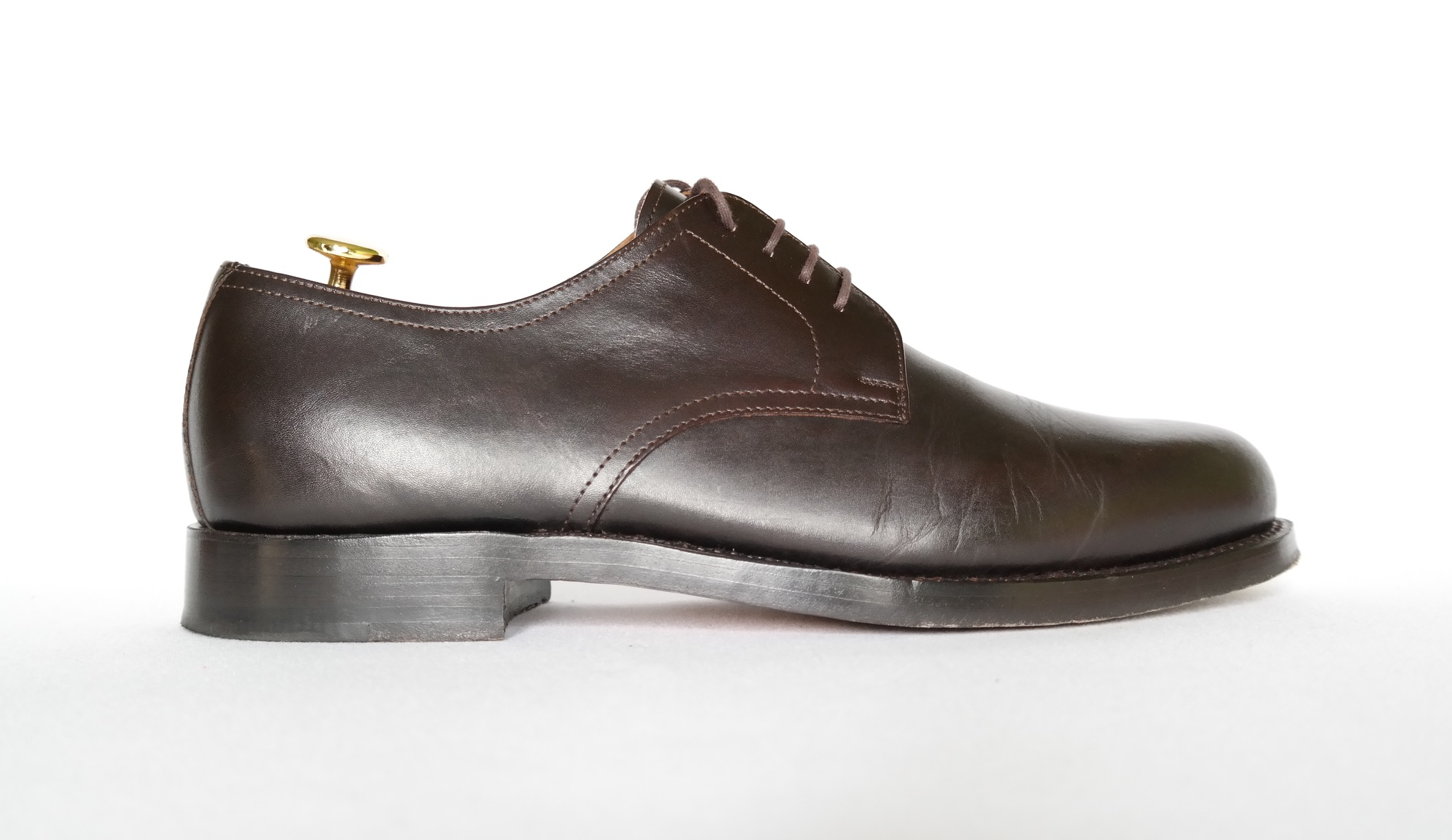 A Plein Derby